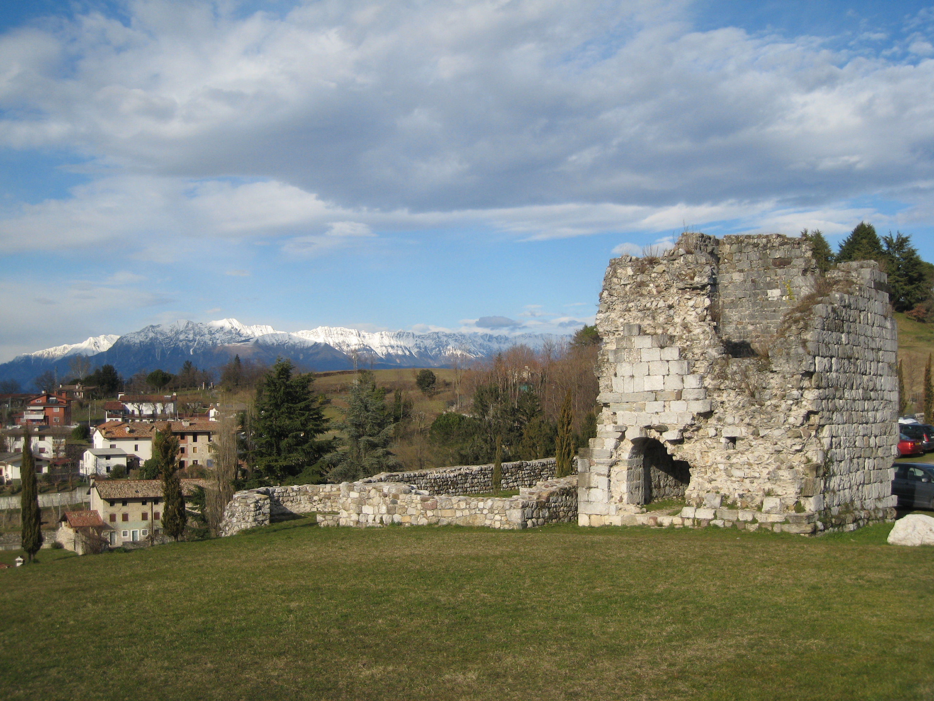 Italy - Friuli - Fagagna